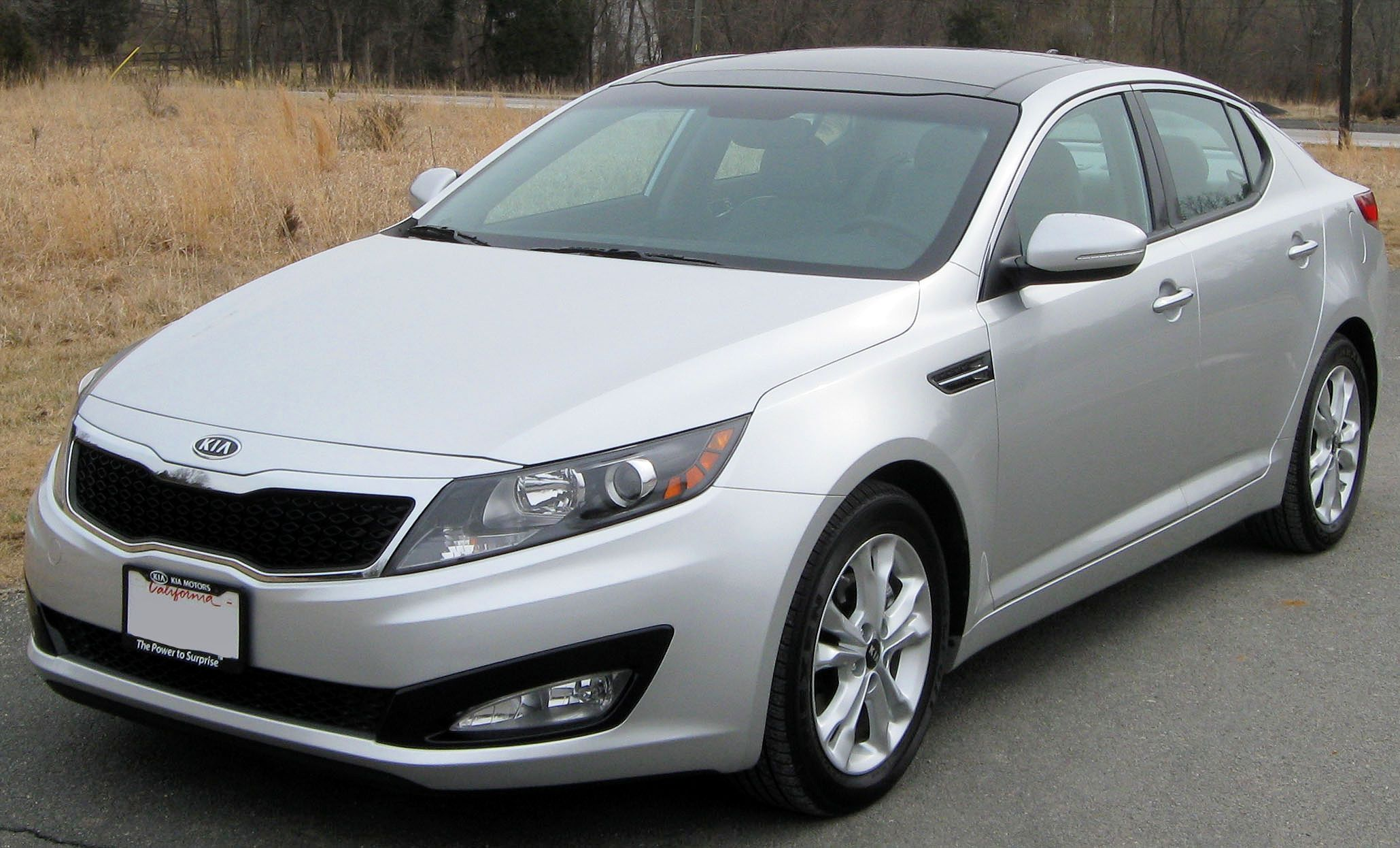 2011 Kia Optima photographed in Centreville, Virginia, USA.